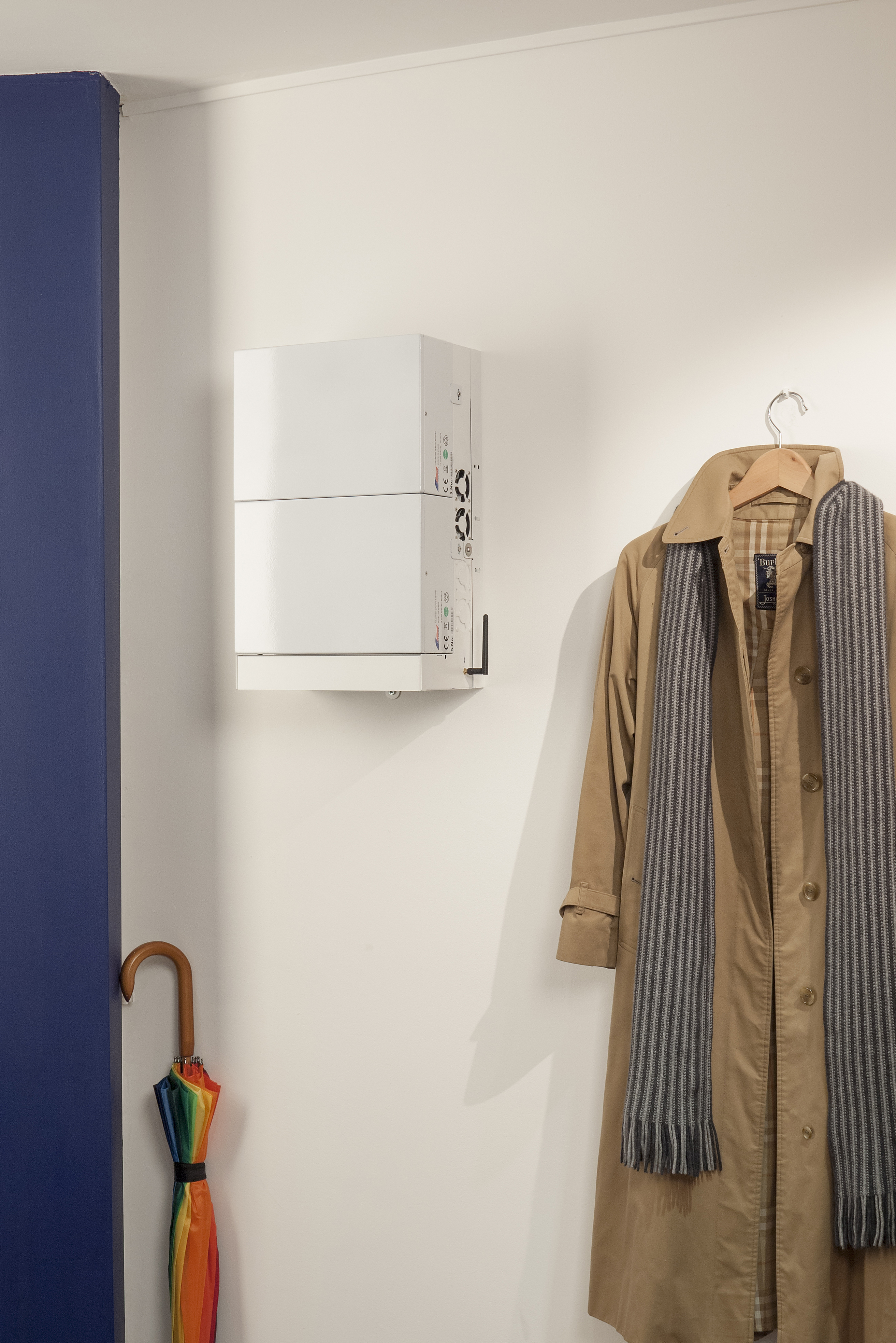 A 2 kWh unit hanging on a wall.